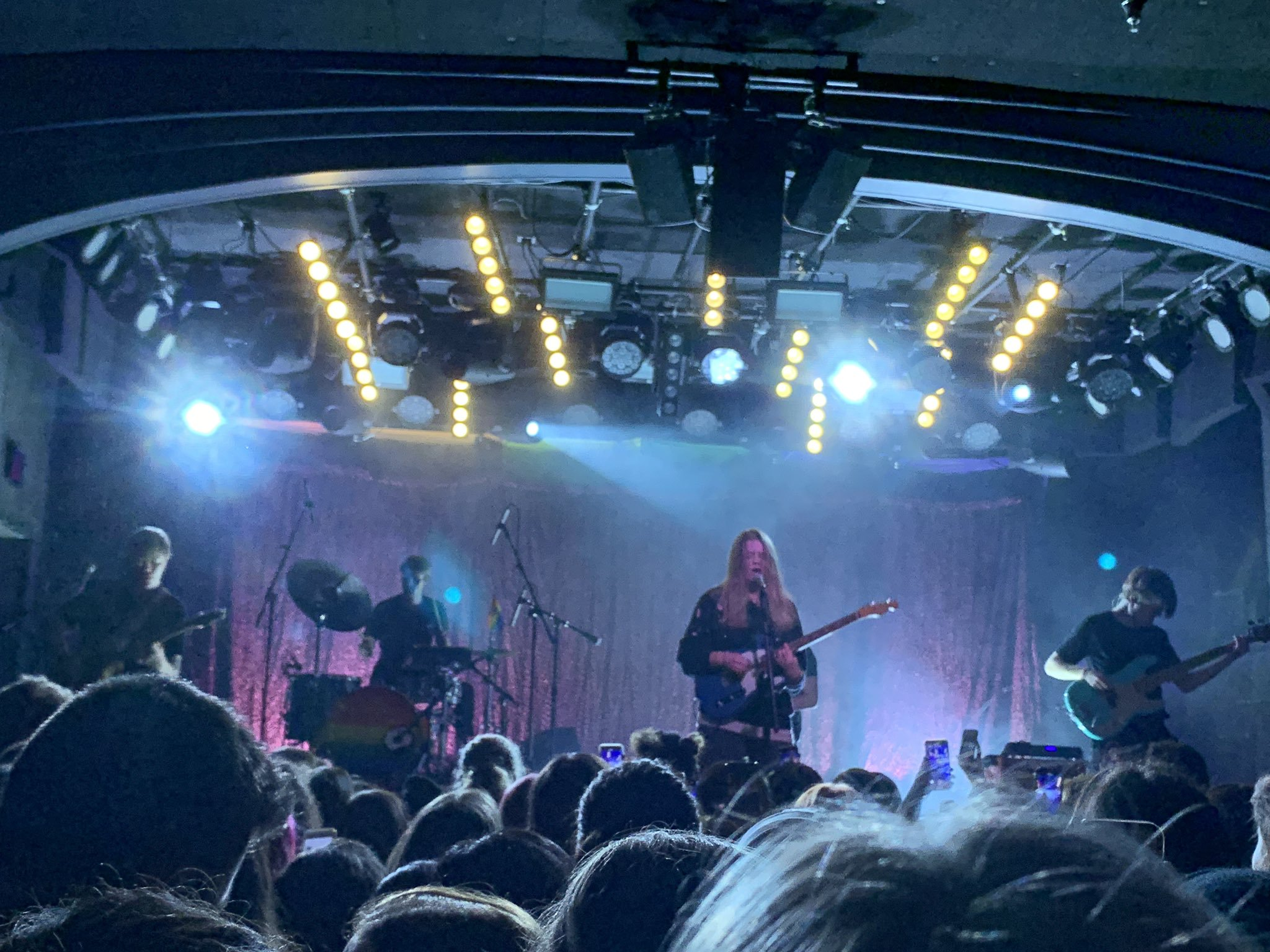 Girl in Red performing in Los Angeles in 2019